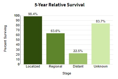 5 year relative survival by stage at diagnosis for melanoma of the skin